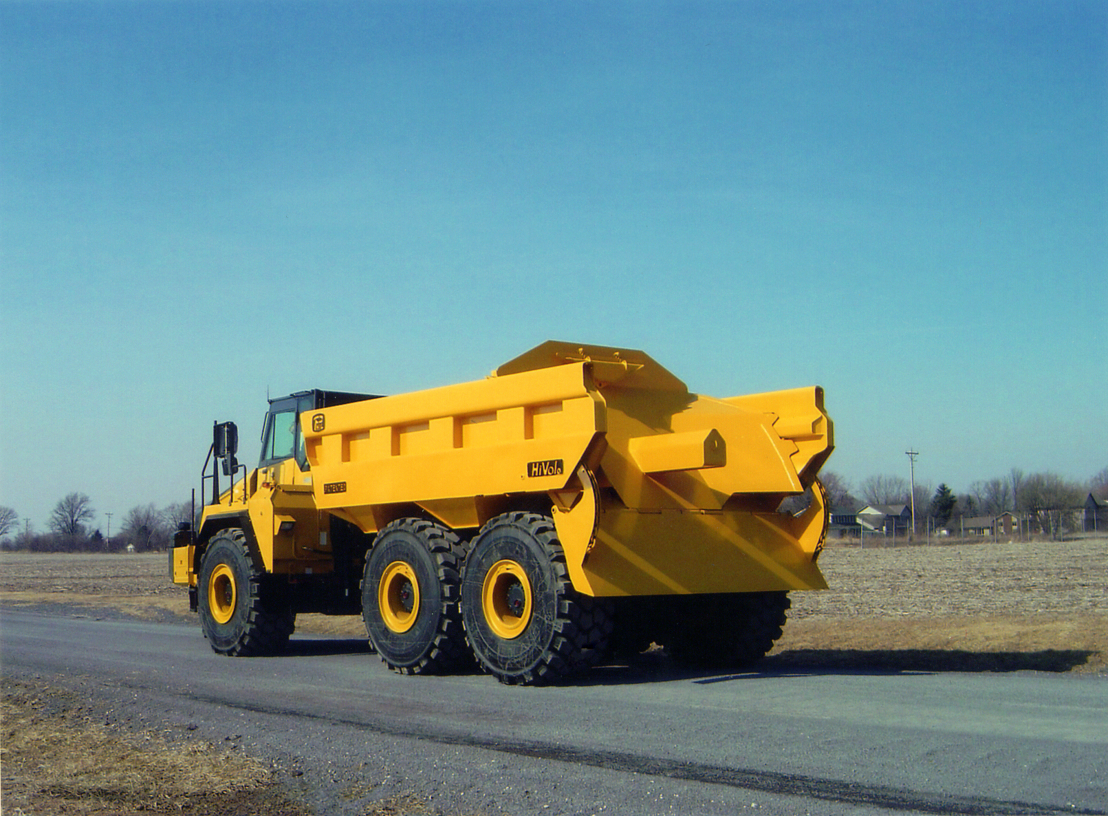 A Rear-Eject Body built by Philippi-Hagenbuch and mounted on a Komatsu HM400-2 articulating haul truck.